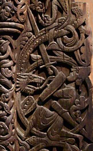 A depiction of Sigurd slaying Fafnir on the right portal plank from Hylestad stave church, the so called "Hylestad I"